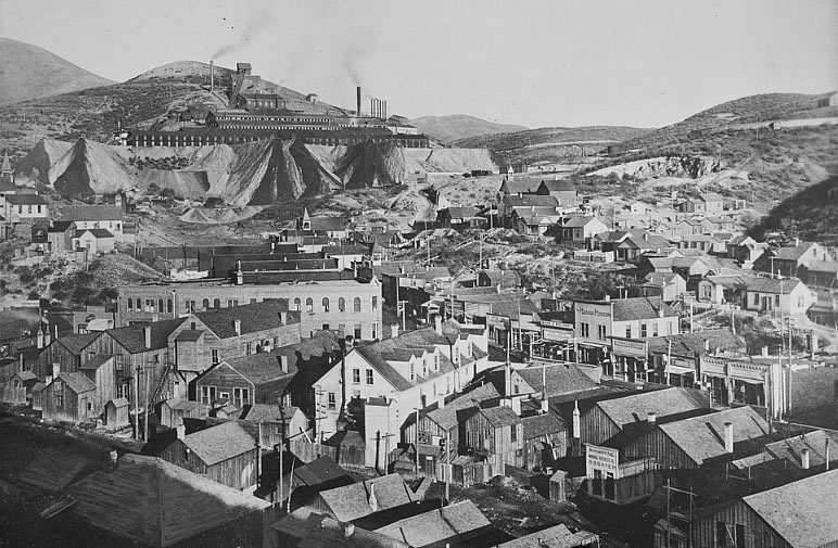 Mercur Utah around 1910. DeLamar Mercur Mines Company, Golden Gate Mill, Ophir, Tooele County, UT